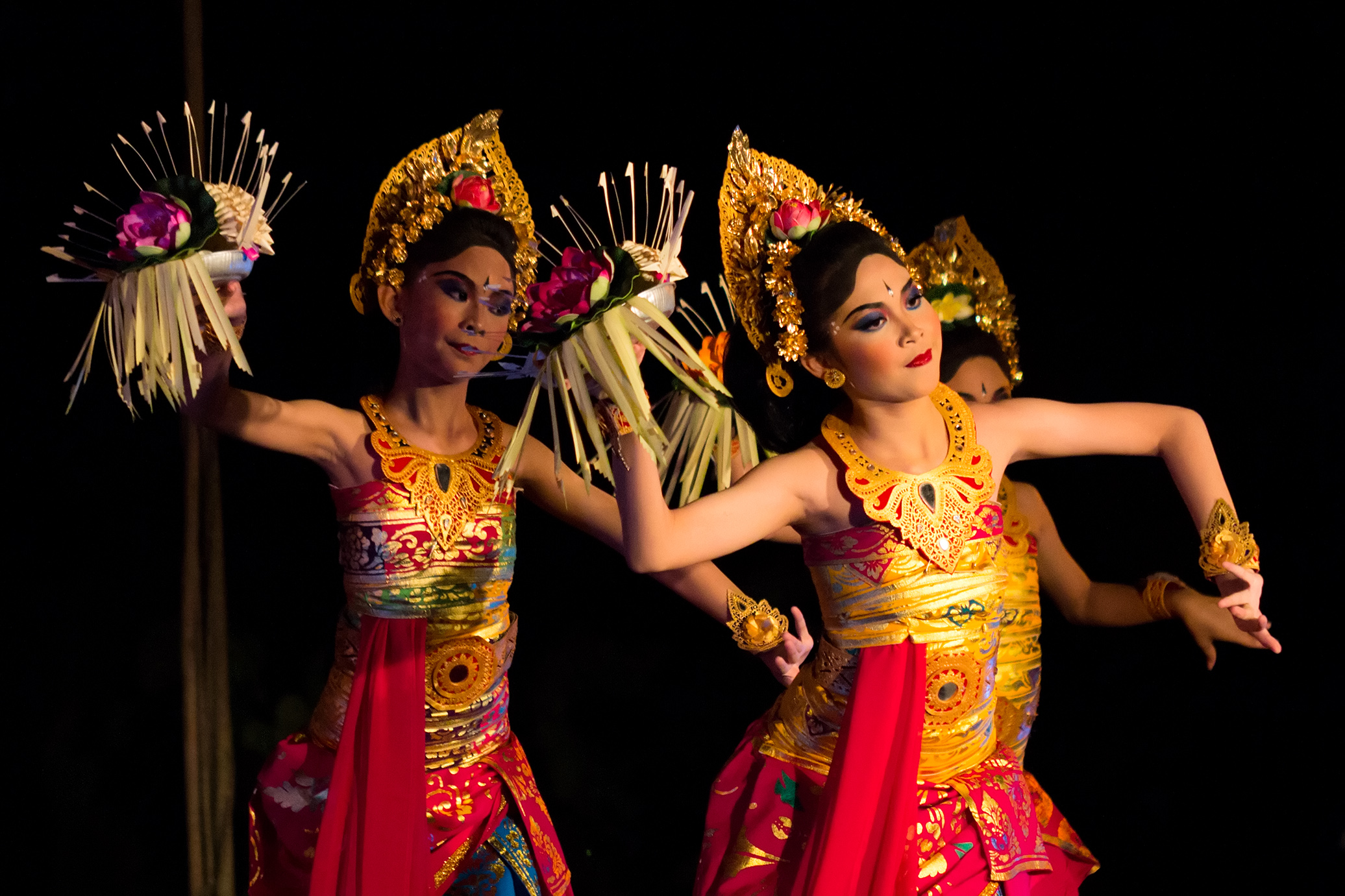 Sanata Dharma University's Sekar Jepun, a Balinese dance troupe, celebrates its 17th anniversary. Here the Tunjunganjali dance is performed.